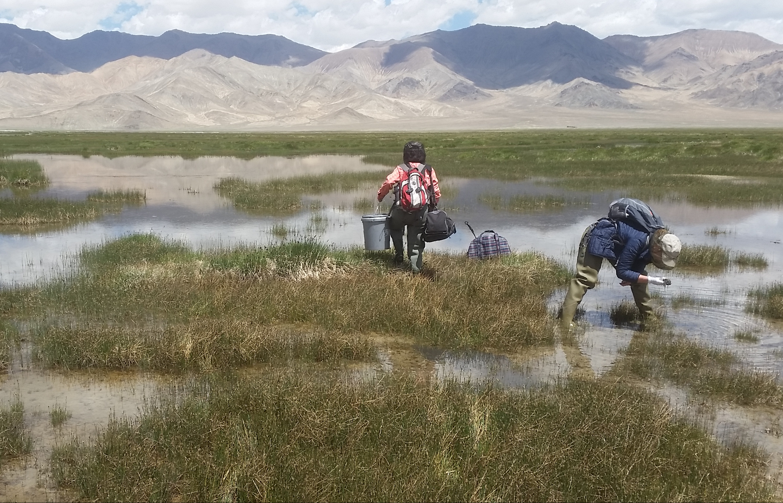 Quest for blue-green fleece. M.Sc. Natalia Khomutovska under the watchful eyes of Dr.Sci. Iwona Jasser is looking for cyanobacteria on the roof of the world. Lake Rang-kul, searching for microbial mats. Barren mountains in contrast with wetlands which are teeming with life